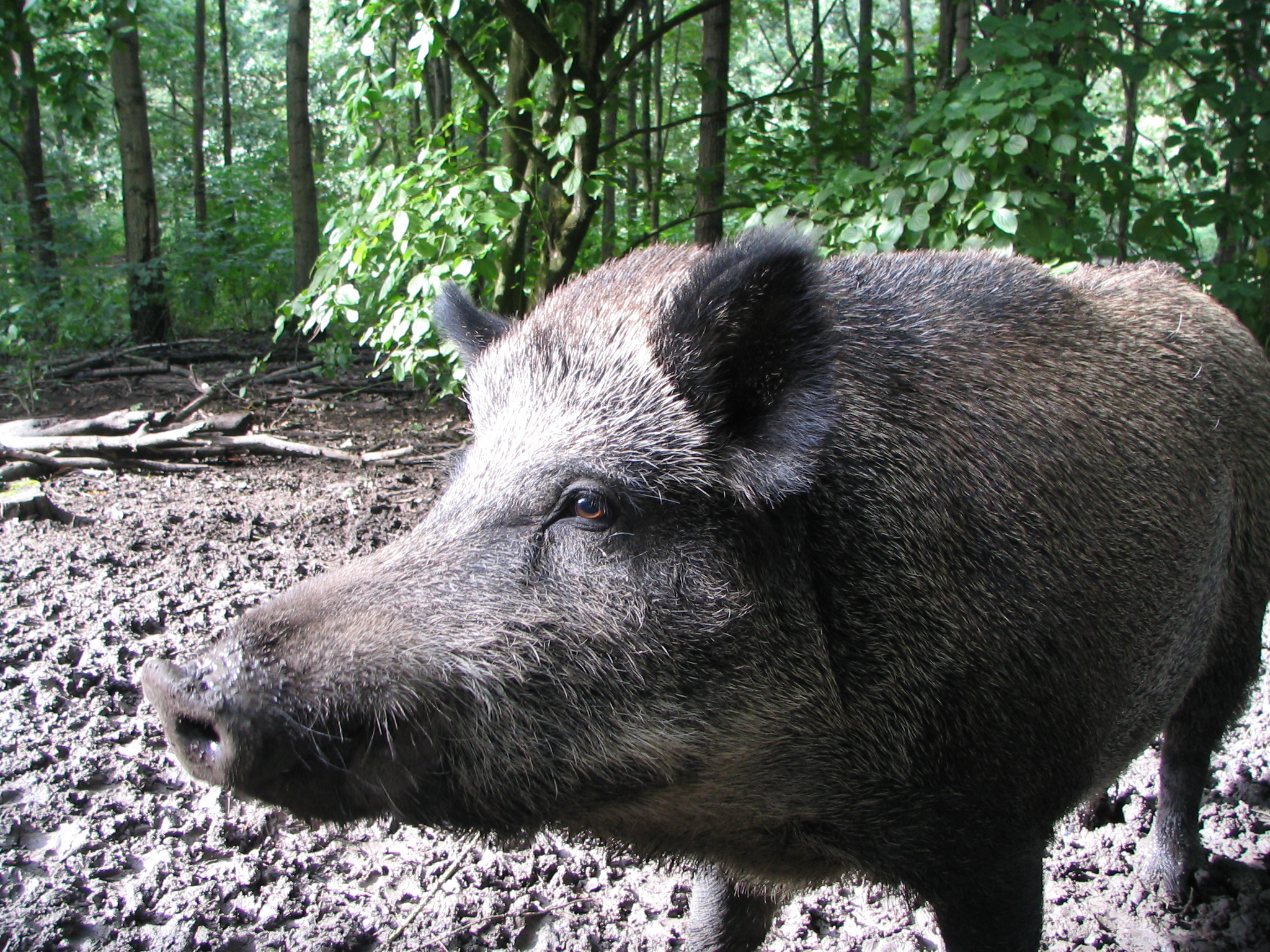 Wild boar of Central Europe